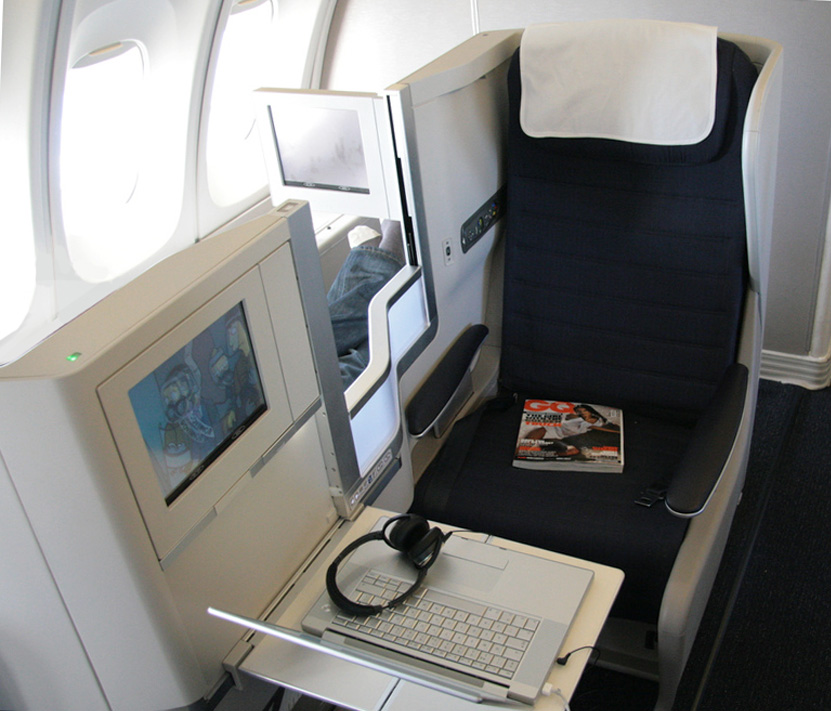 New CW seat, 747 upper deck